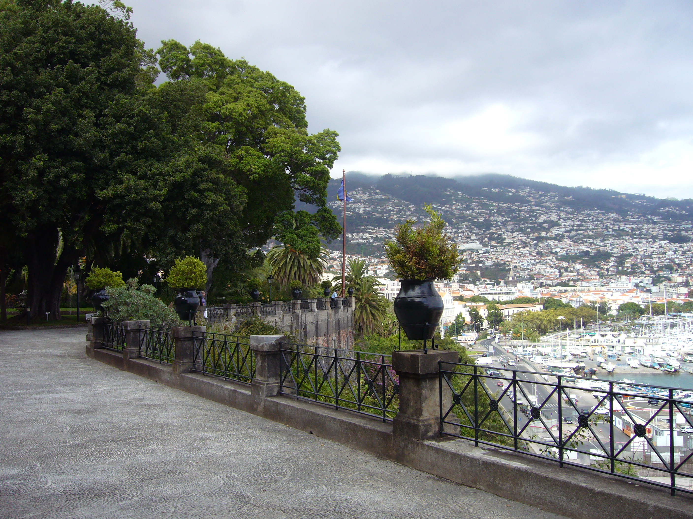 View of the Funchal Harbour from the park of Quinta Vigia